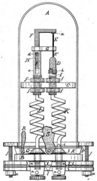 William E. Sawyer electric lamp, patent US 205144